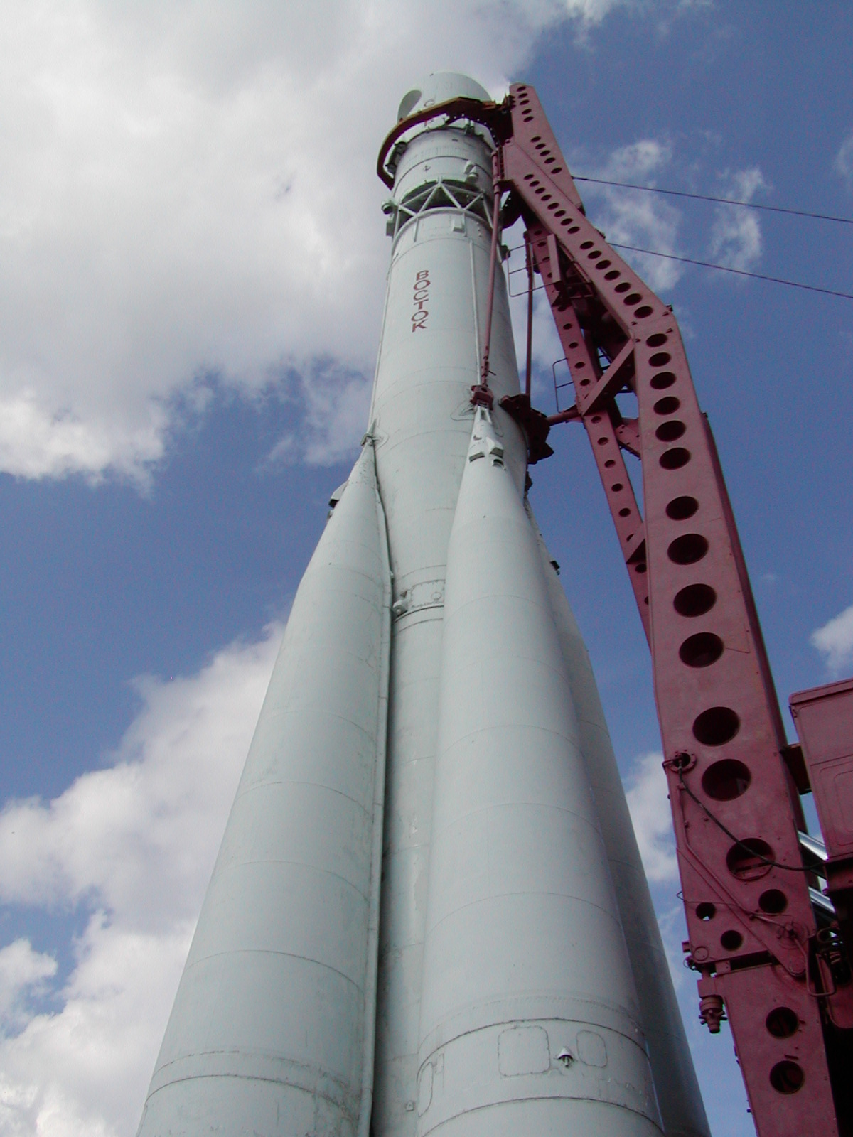 Rocket "Vostok" in Kaluga near Museum of cosmonautics